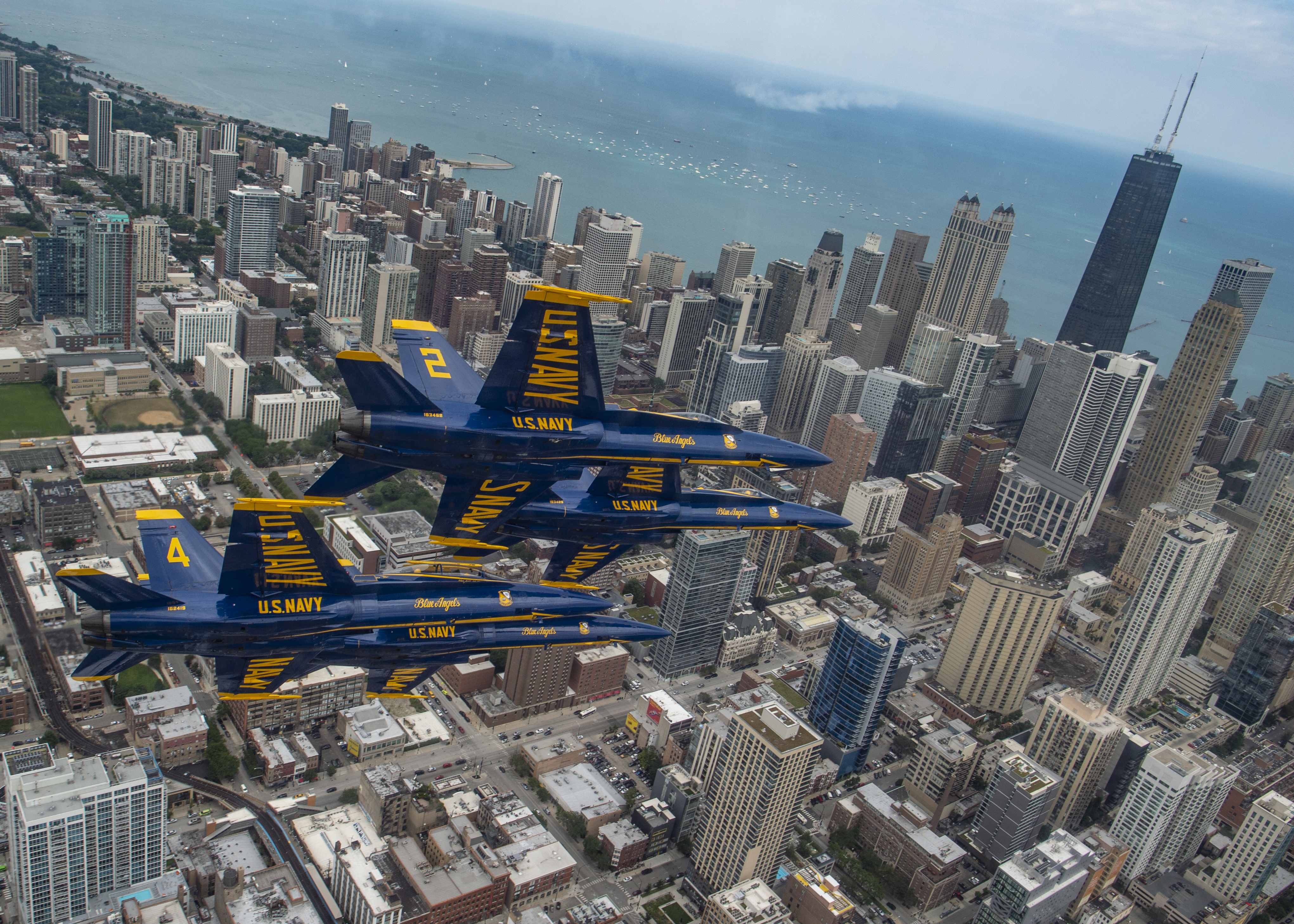 190816-N-IR734-2044 CHICAGO (Aug. 16, 2019) The U.S. Navy Flight Demonstration Squadron, the Blue Angels, diamond pilots fly over Chicago during the 2019 Chicago Air and Water Show. The Blue Angels are scheduled to conduct 61 flight demonstrations at 32 locations across the country to showcase the pride and professionalism of the U.S. Navy and Marine Corps to the American public in 2019. (U.S. Navy photo by Mass Communication Specialist 1st Class Ian Cotter/Released)